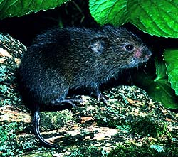 meadow vole Source: downloaded from